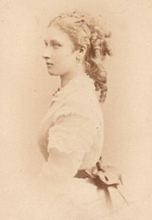 Princess Louise, Duchess of Argyll Scan from 1875 CDV